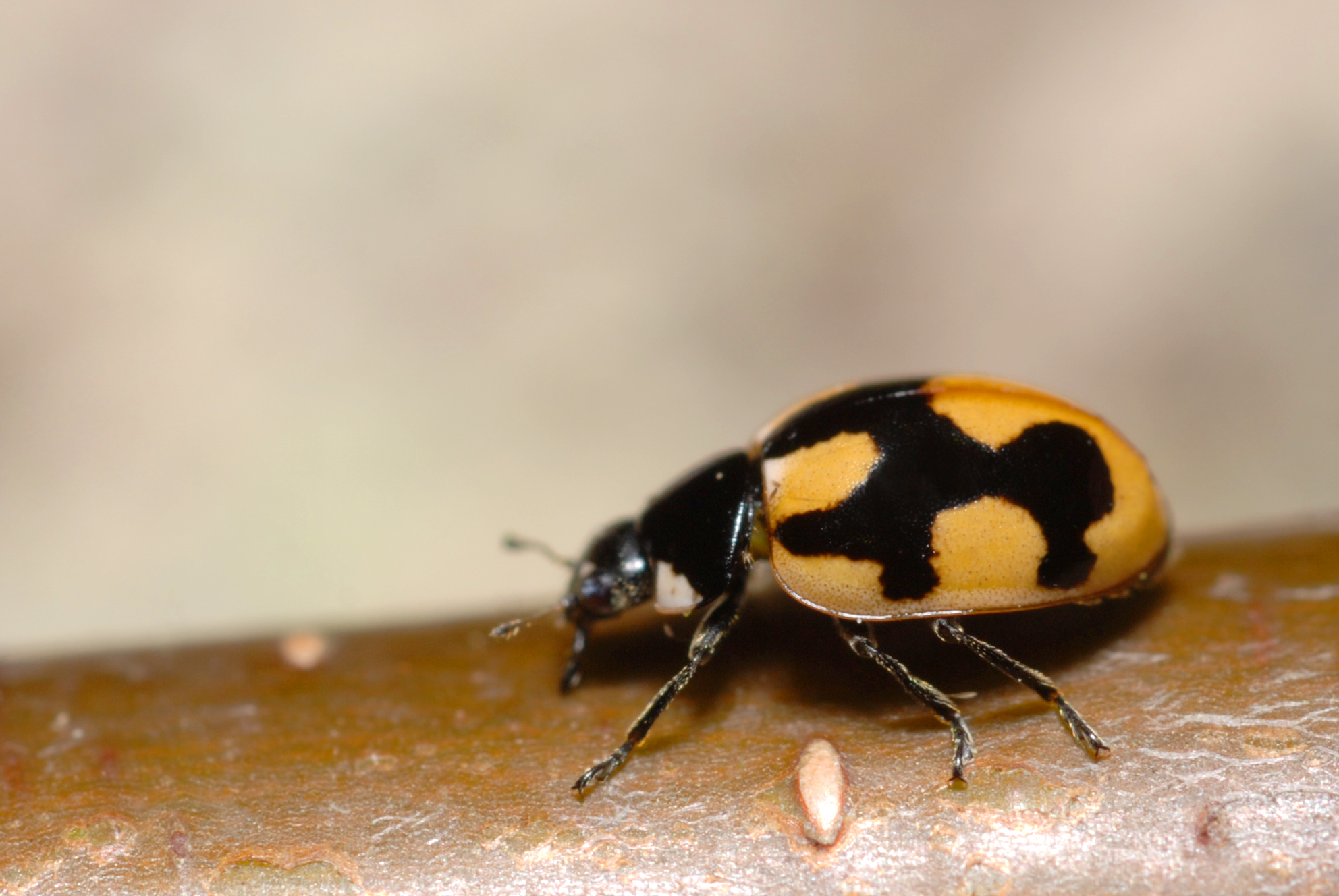 A threatened species in Belgium where it lives only in heathlands and Filipendula ulmaria marshes